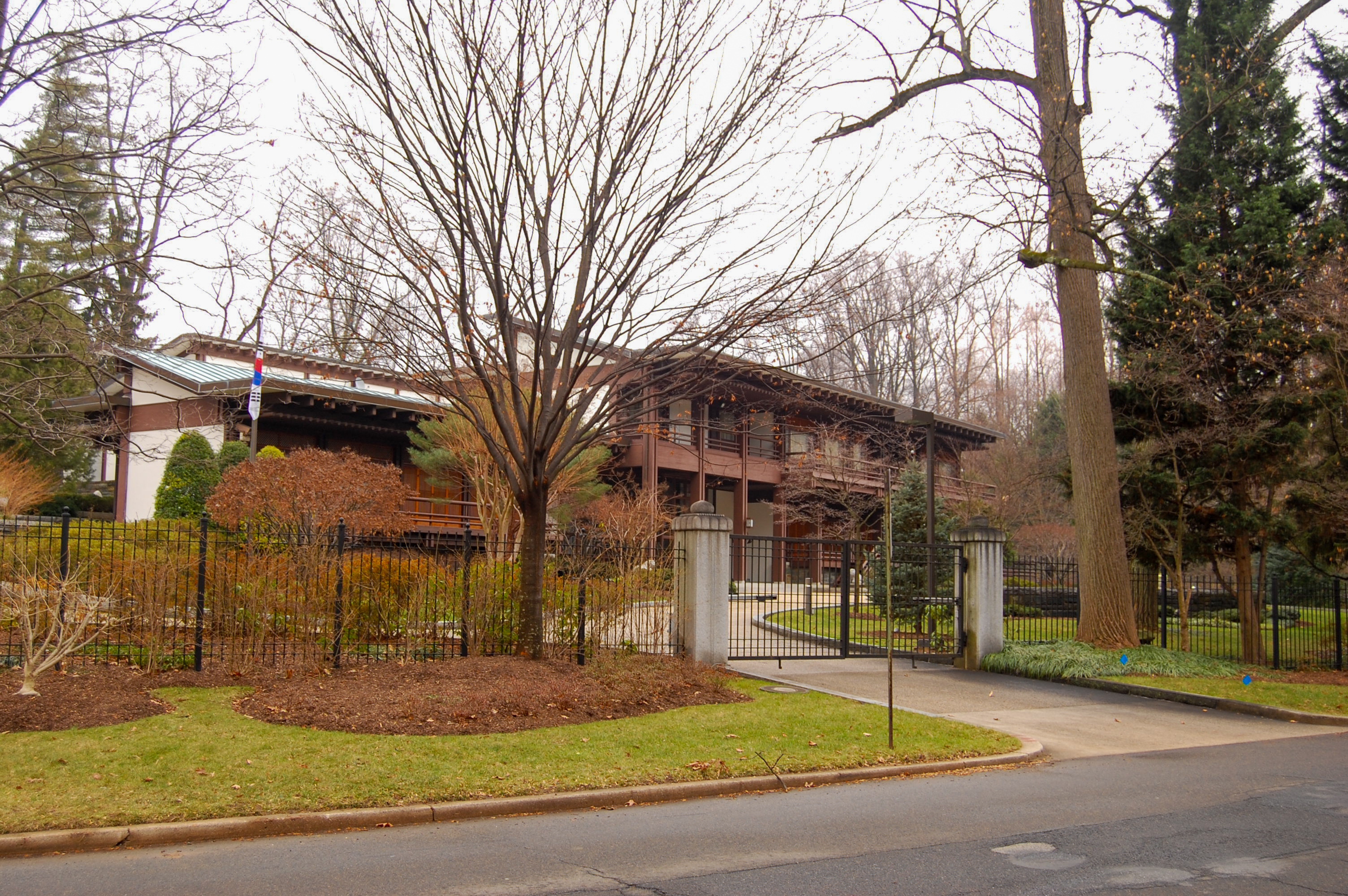 The ambassador of South Korea's house in the Spring Valley neighborhood of northwest Washington, DC.